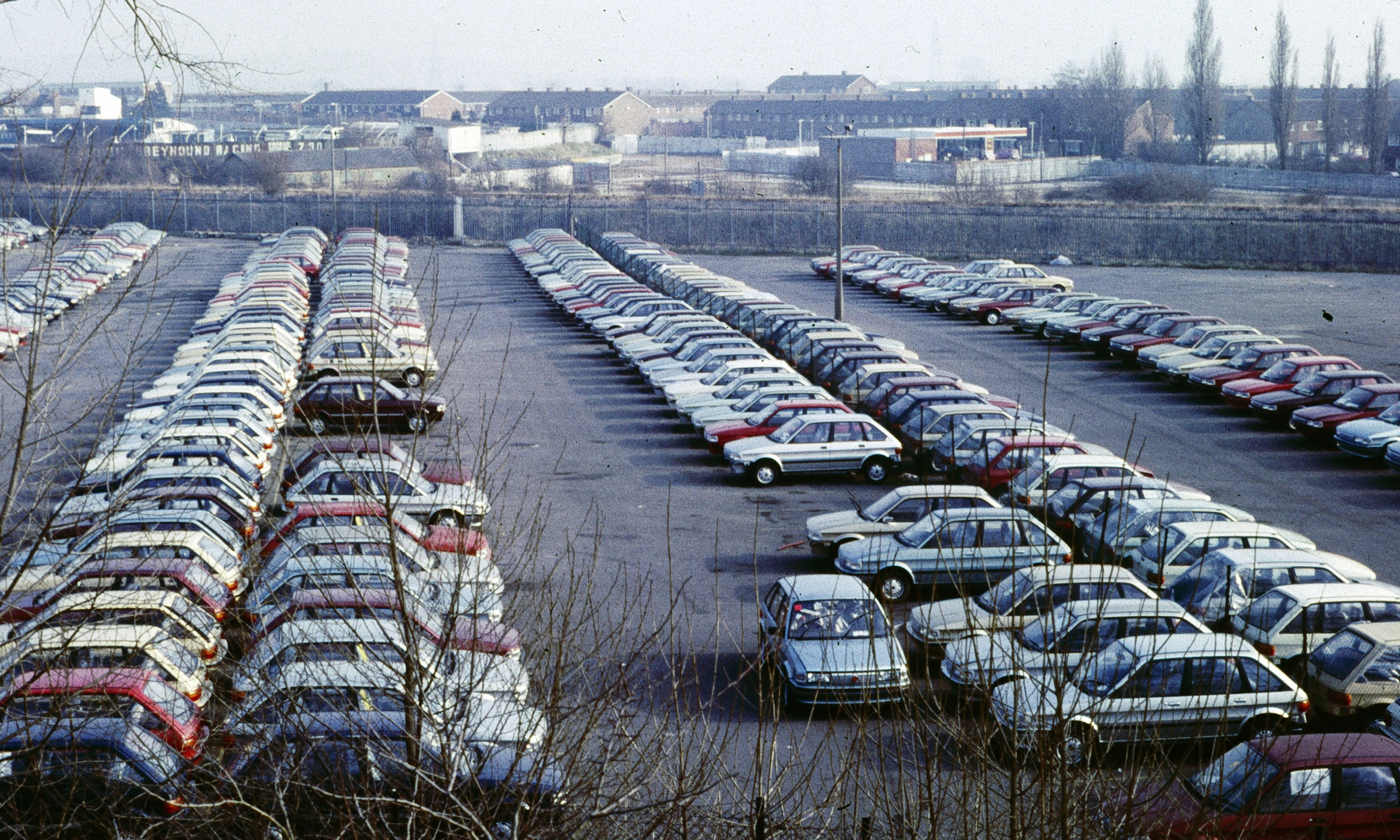 Austin Maestro Inventory